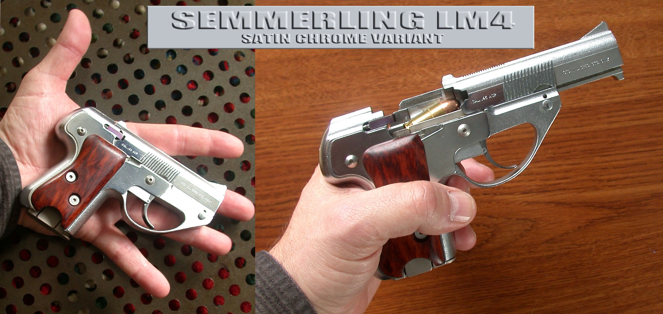 Semmerling LM4 shown in rare "Satin Chrome" variant. Left hand image shows the pistol in its "ready to fire" rear barrel position. Right hand image shows the LM4 with its manually operated barrel in the forward "eject/ready to load" position. Also seen are the rare Cocobolo wood grips.